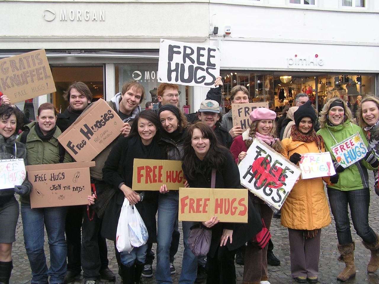 'FREE HUGS', Brugge, Belgium.